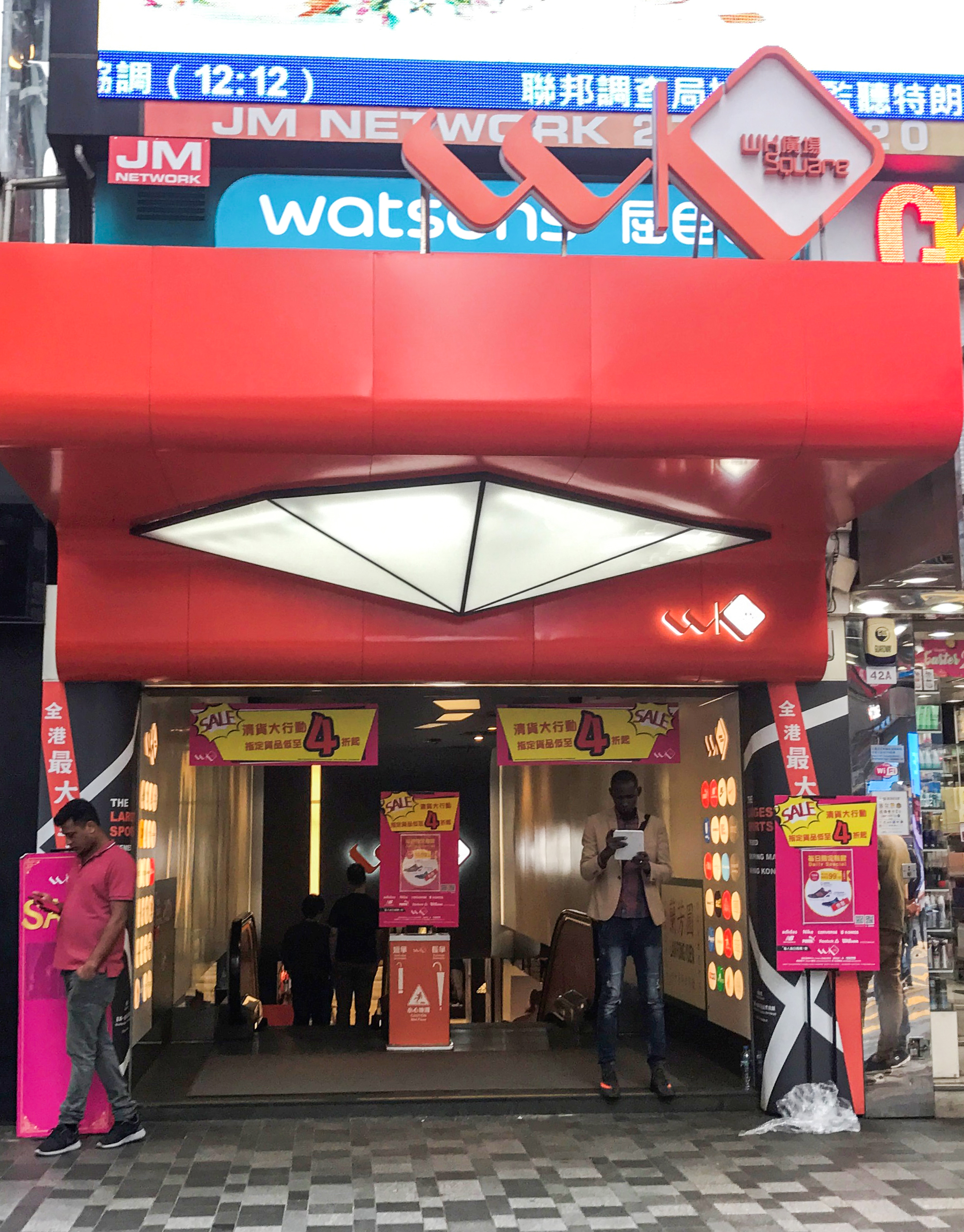 香港首間運動主題商場WK廣場現已開幕！場內彙集三十多個國際品牌，各大頂級運動名牌及周邊裝備：Adidas, New Balance, Nike, Yonex等名牌一應俱全，另網羅休閒服飾及時尚潮流衣著。